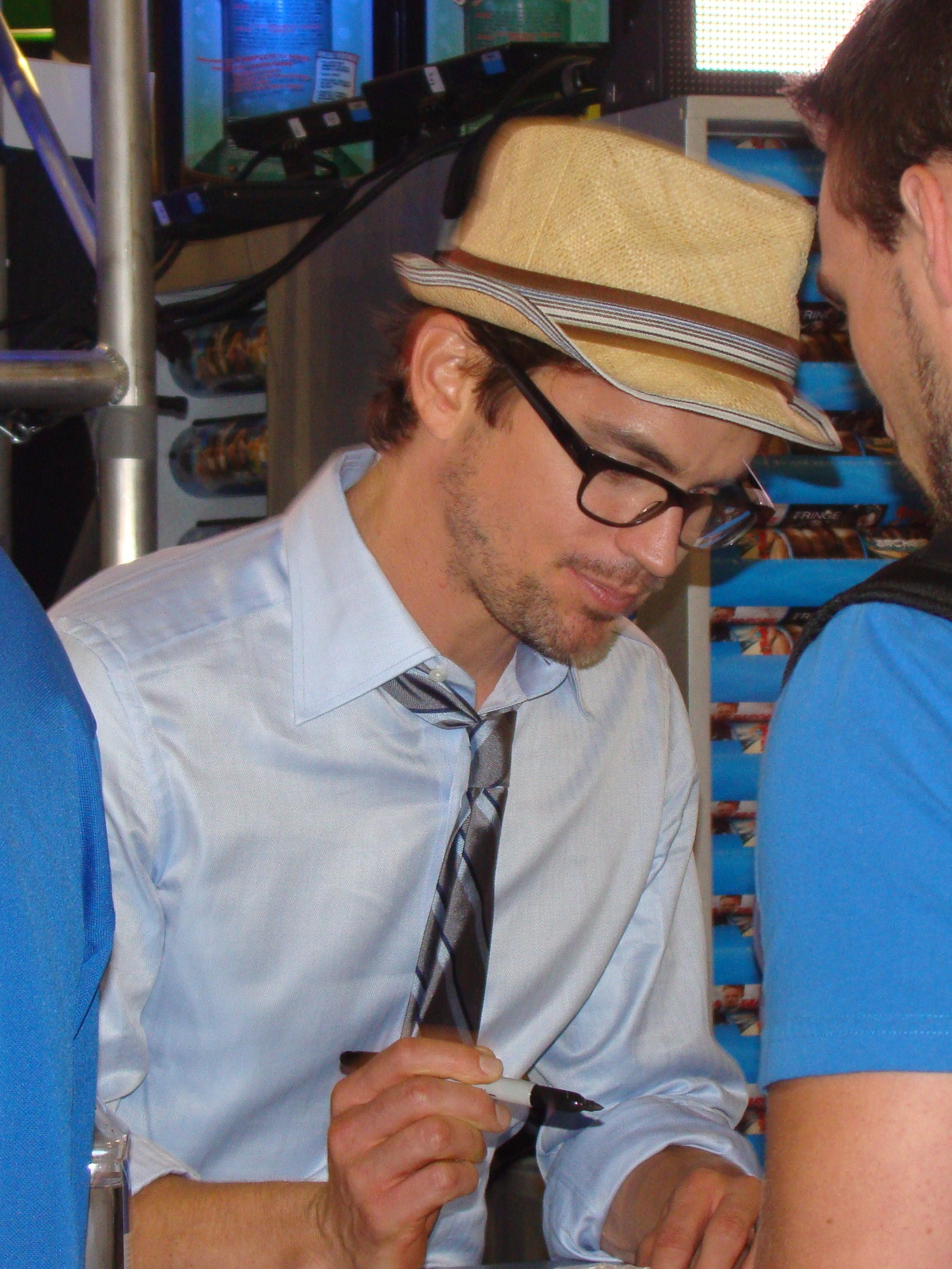 Actor Matthew Bomer